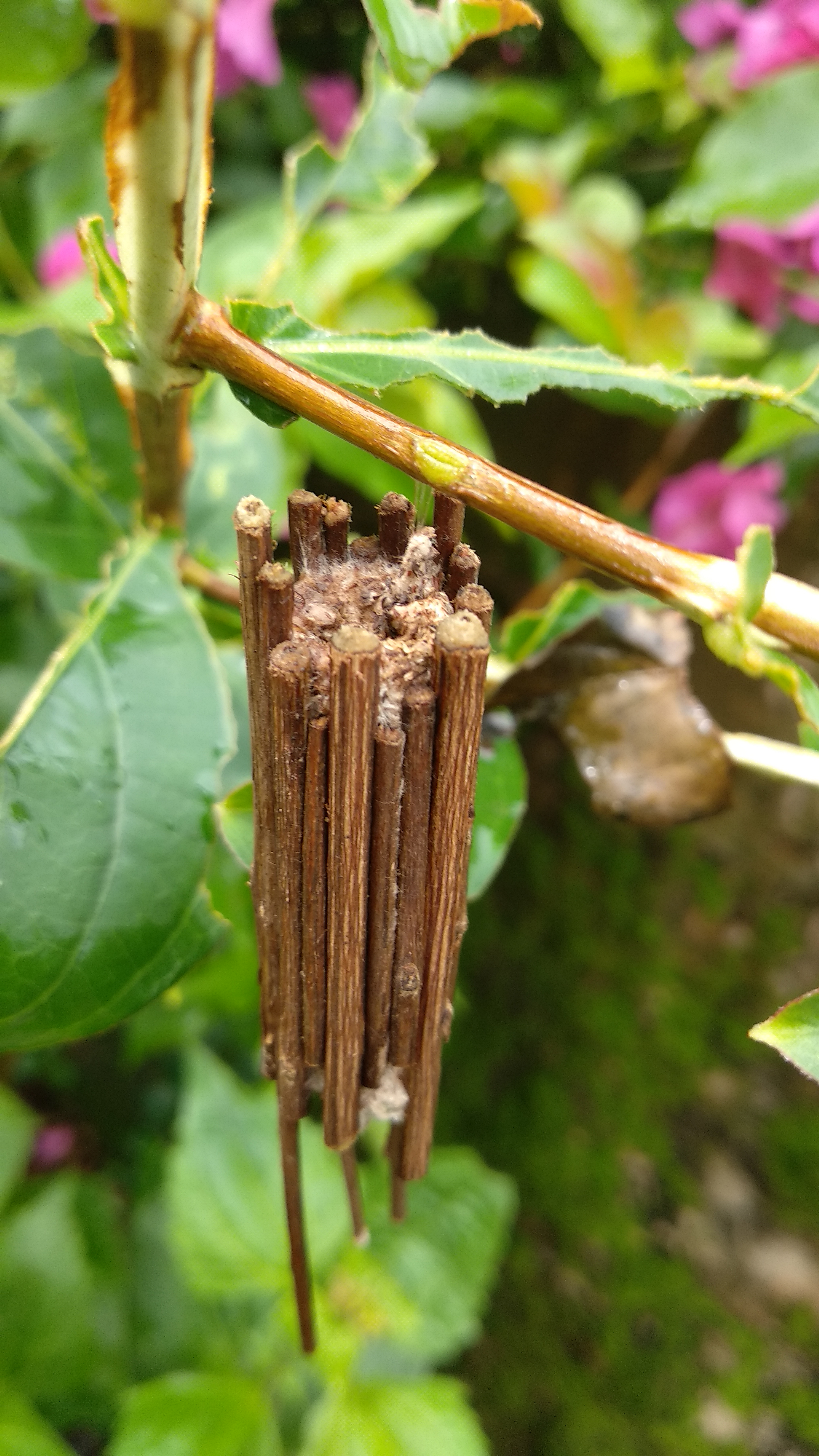 Cocoon